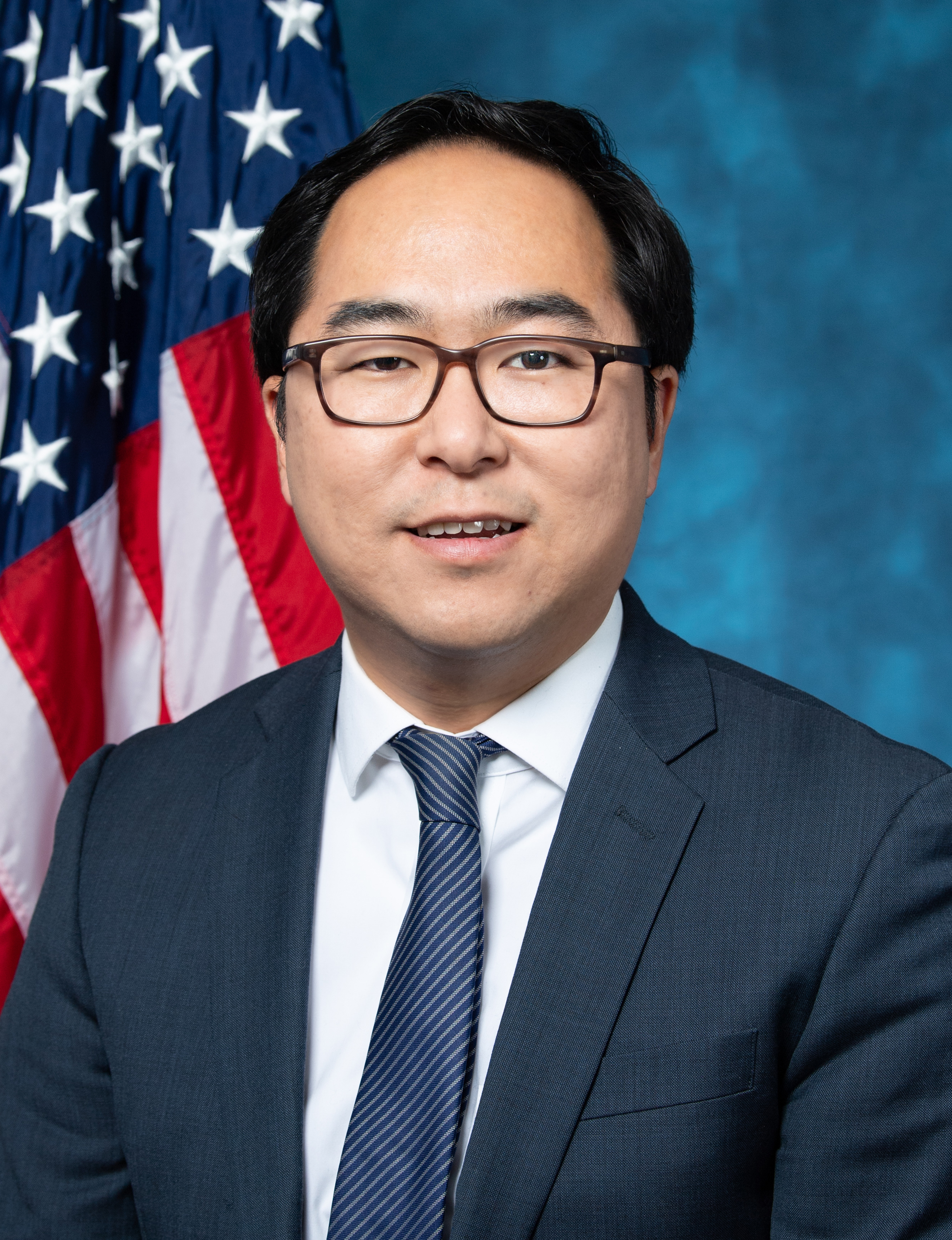 Rep. Andy Kim (D-NJ03)